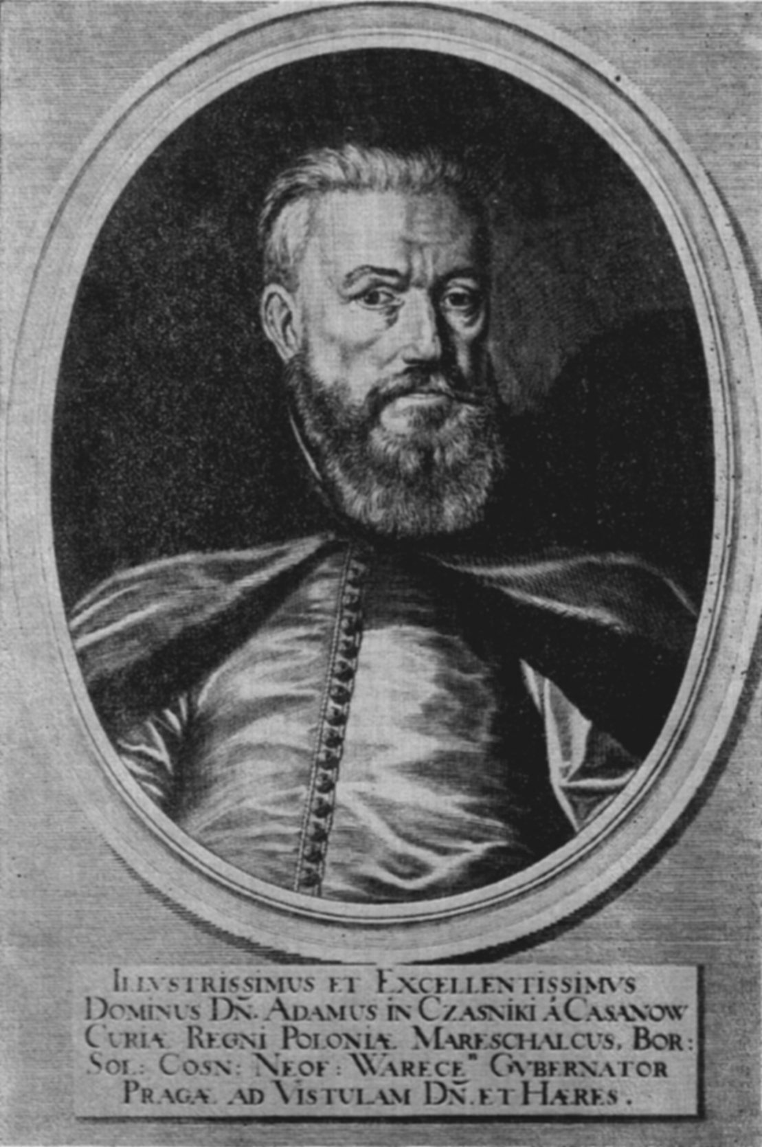 Adam Kazanowski,state dignitary of Polish-Lithuanian Commonwealth in 17th century , d. 1649